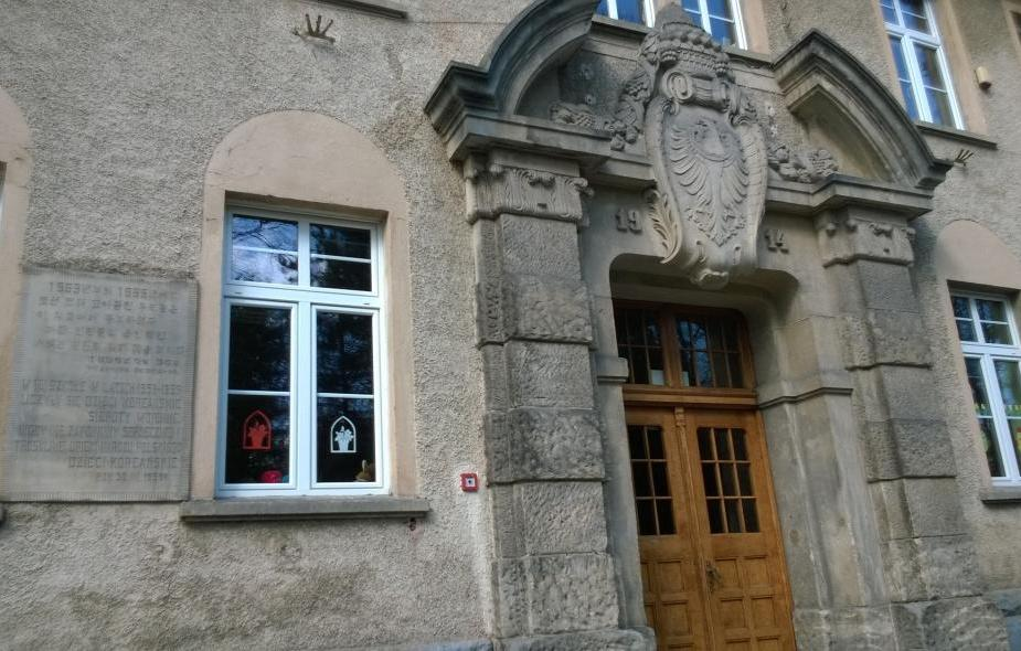 Facade of the school in Plakowice. On the left hand side the two-language-memorial for north-corean